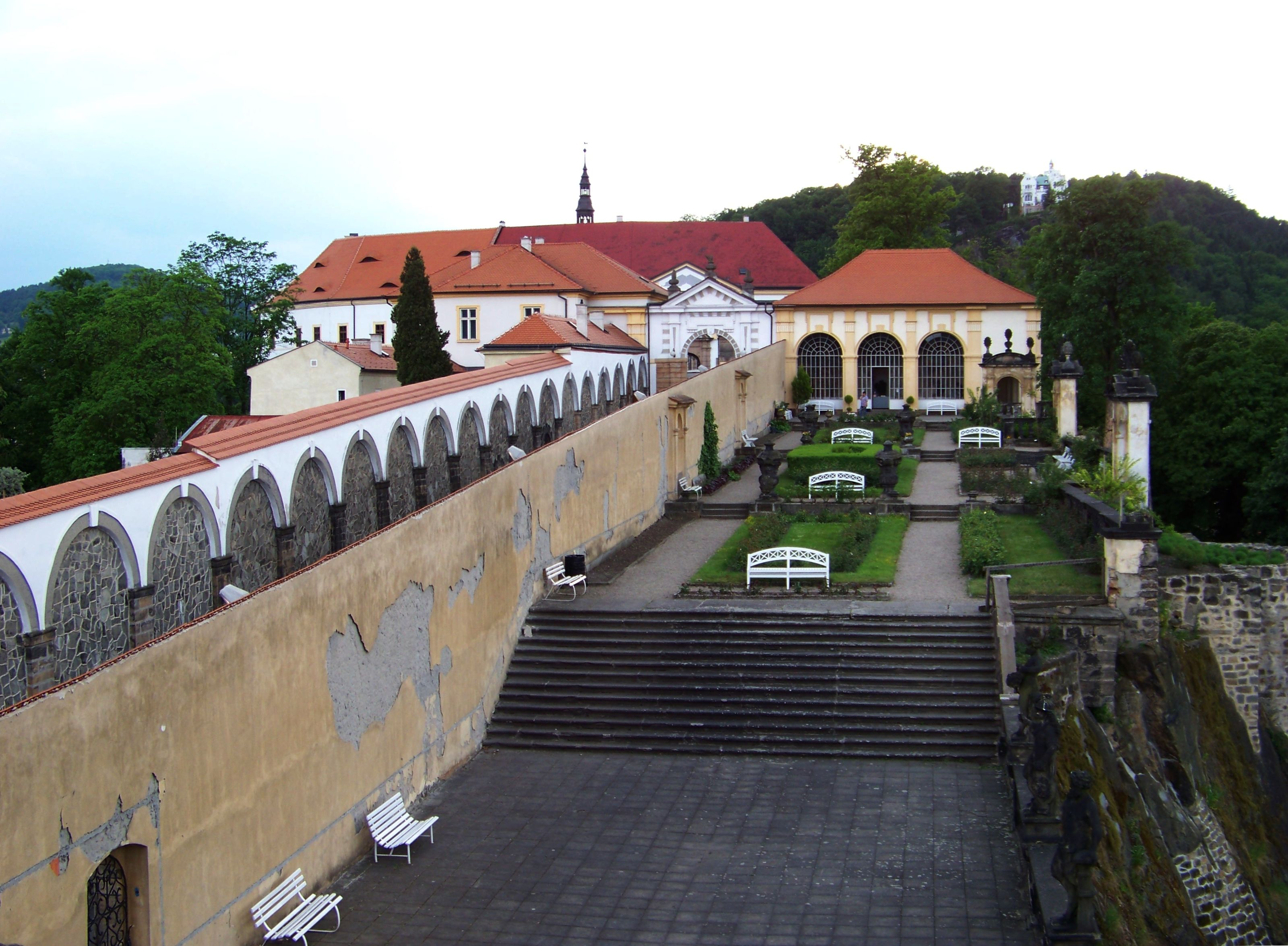 Děčín I-Děčín, Děčín District, Ústí nad Labem Region, the Czech Republic. Rose Garden, Dlouhá jízda street, Pastýřská stěna hill. A view from the gloriette of the Rose Garden.